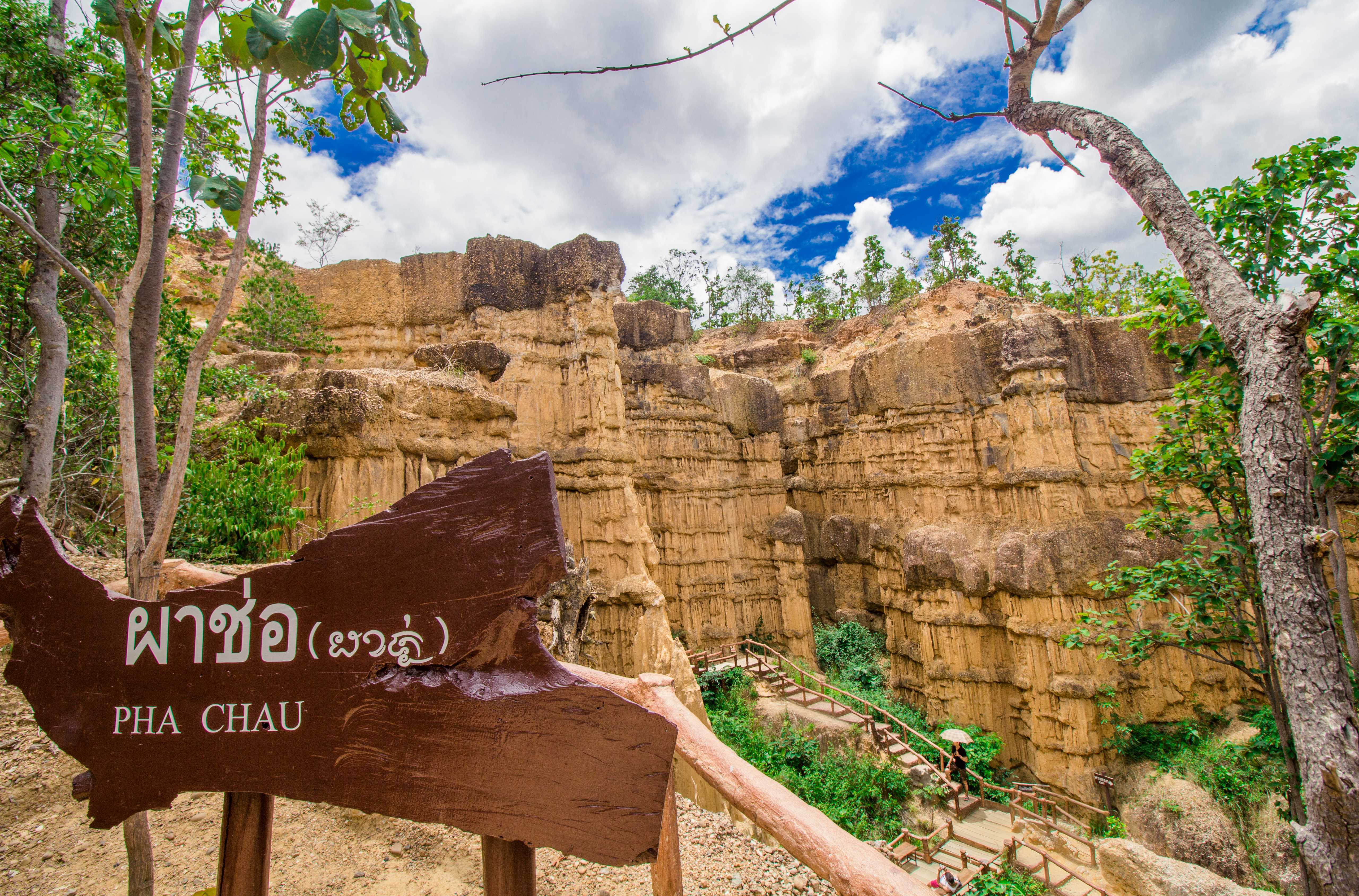 อุทยานแห่งชาติแม่วาง